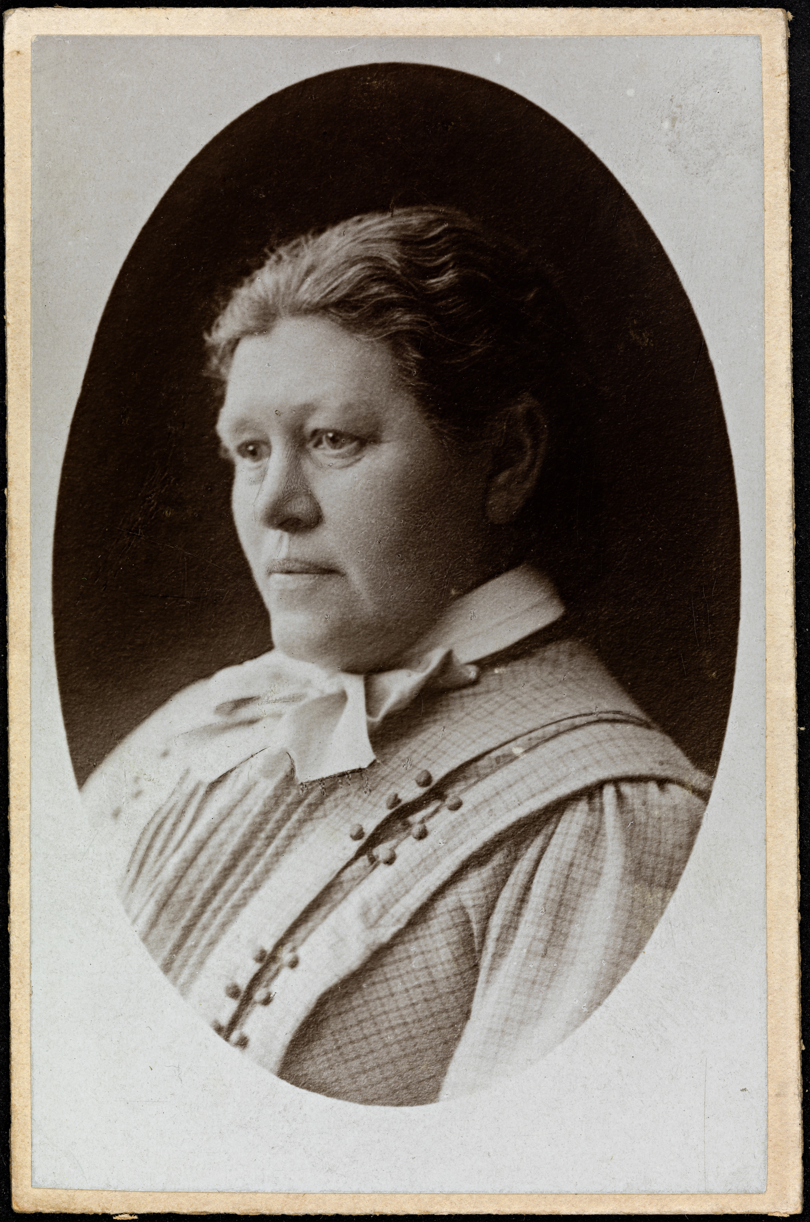 portrait of Anne Bolette Holsen